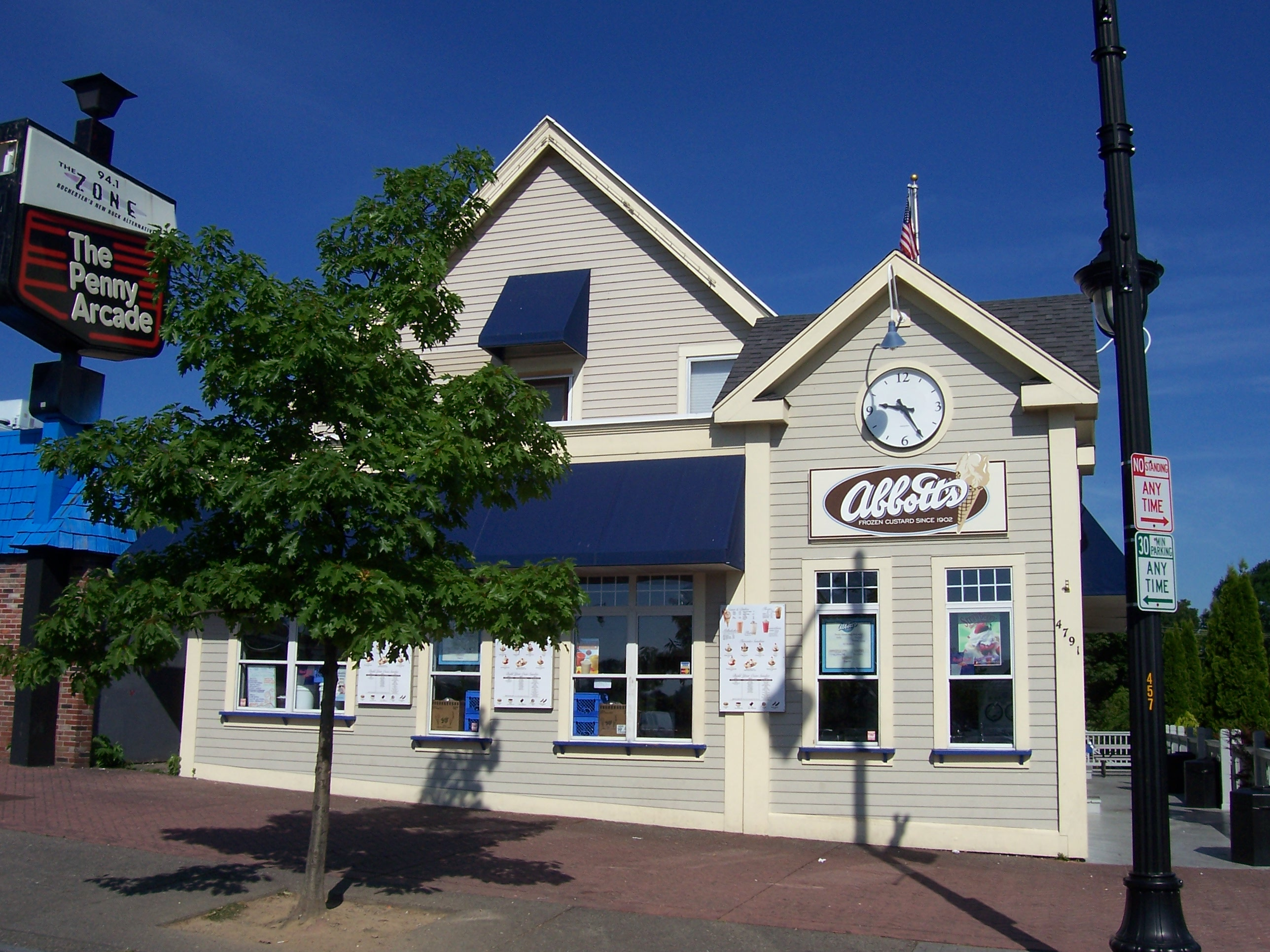 Abbott's Frozen Custard shop on Lake Avenue in Rochester, New York. This building also houses its headquarters.